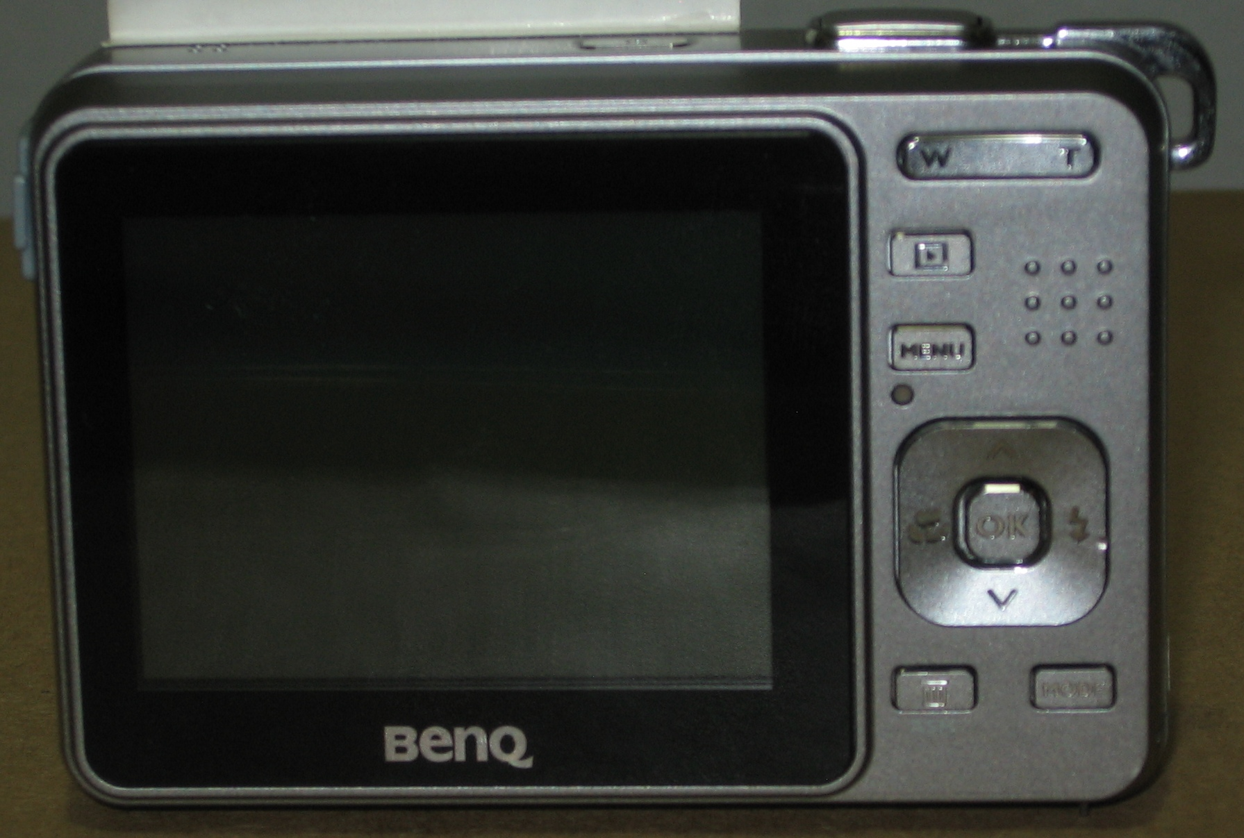 Picture of a Benq C540 digital camera (back)